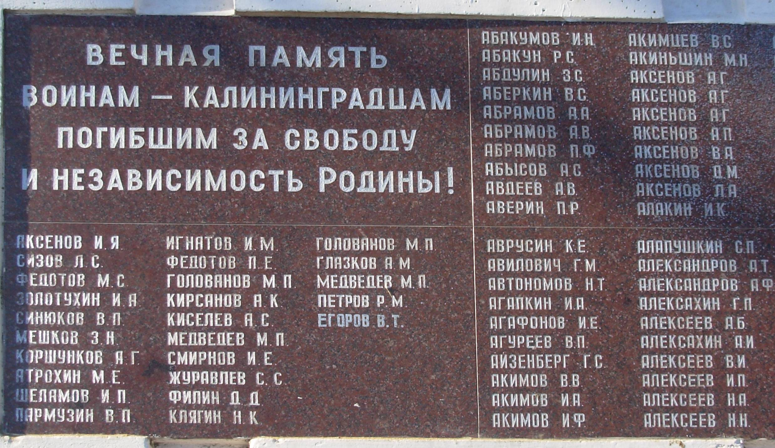 war